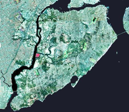 The Isle of Meadow in Staten Island is shown in red, where the Fresh Kills empties into the Arthur Kill. Based on public domain image courtesy NYGIS. © 2004 Matthew Trump.